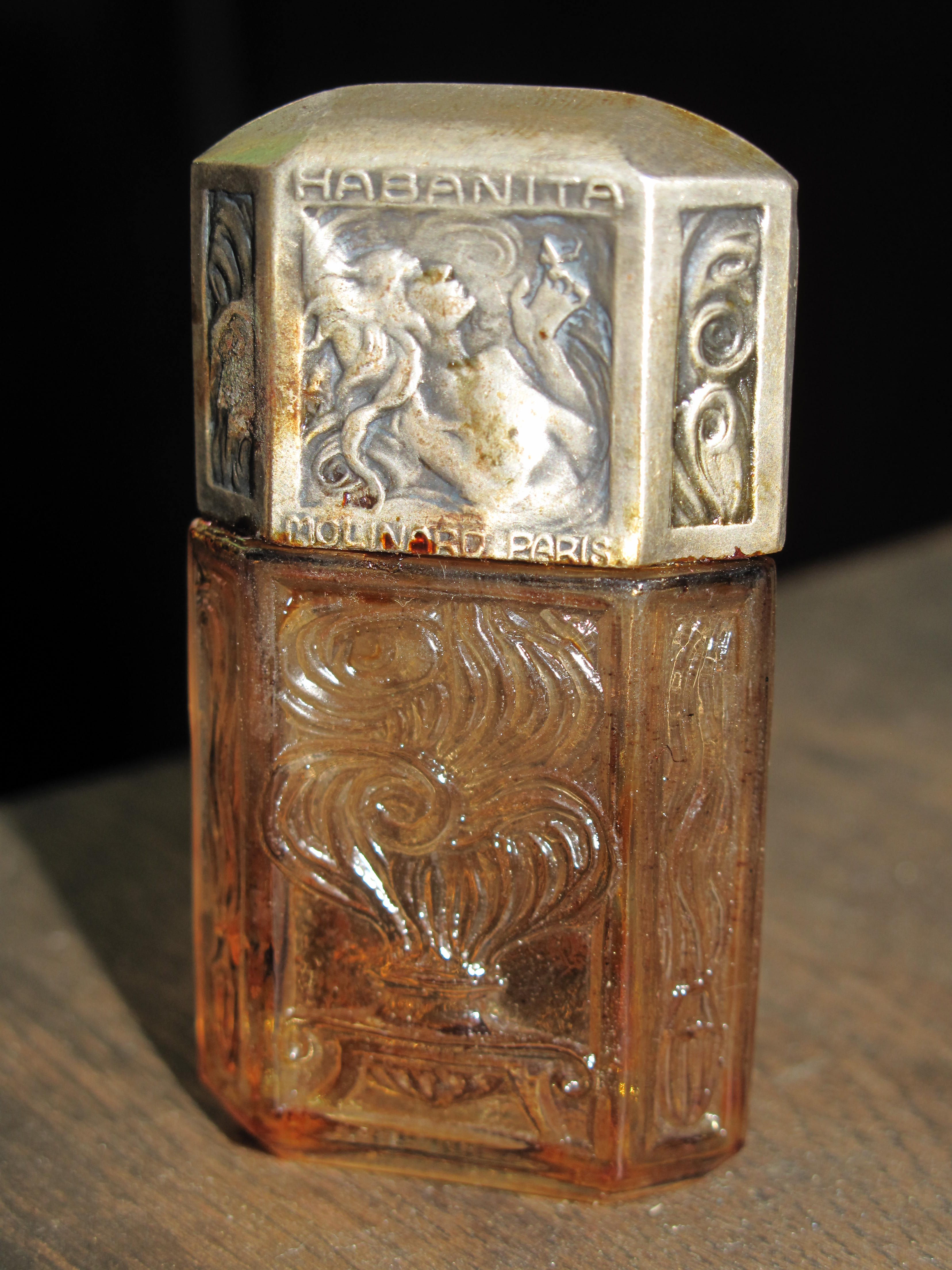 Old scent bottle Habanita' by the perfume company Molinard. France, circa 1930. Height 8 cm.